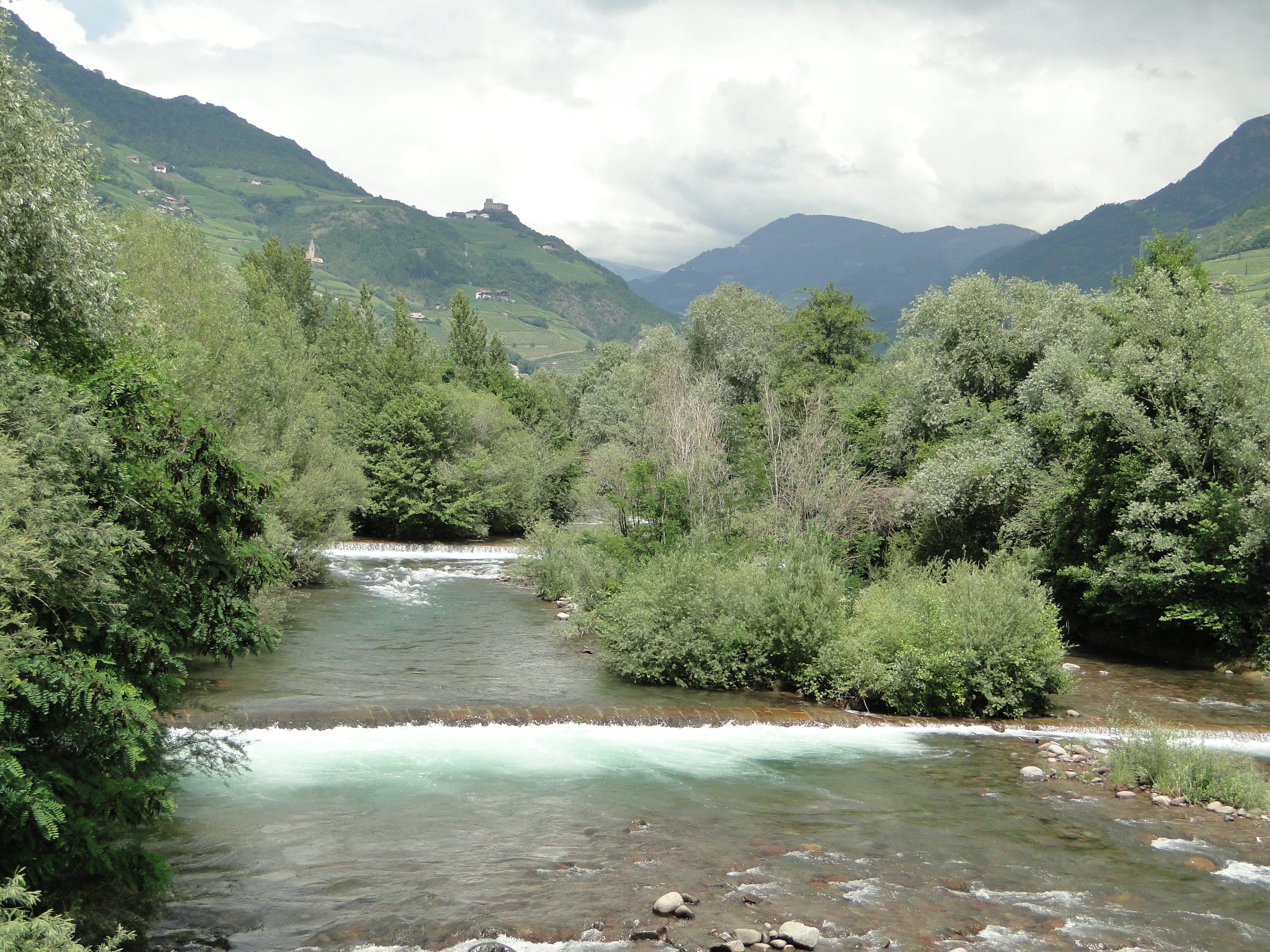 39100 Bolzano, Province of Bolzano - South Tyrol, Italy